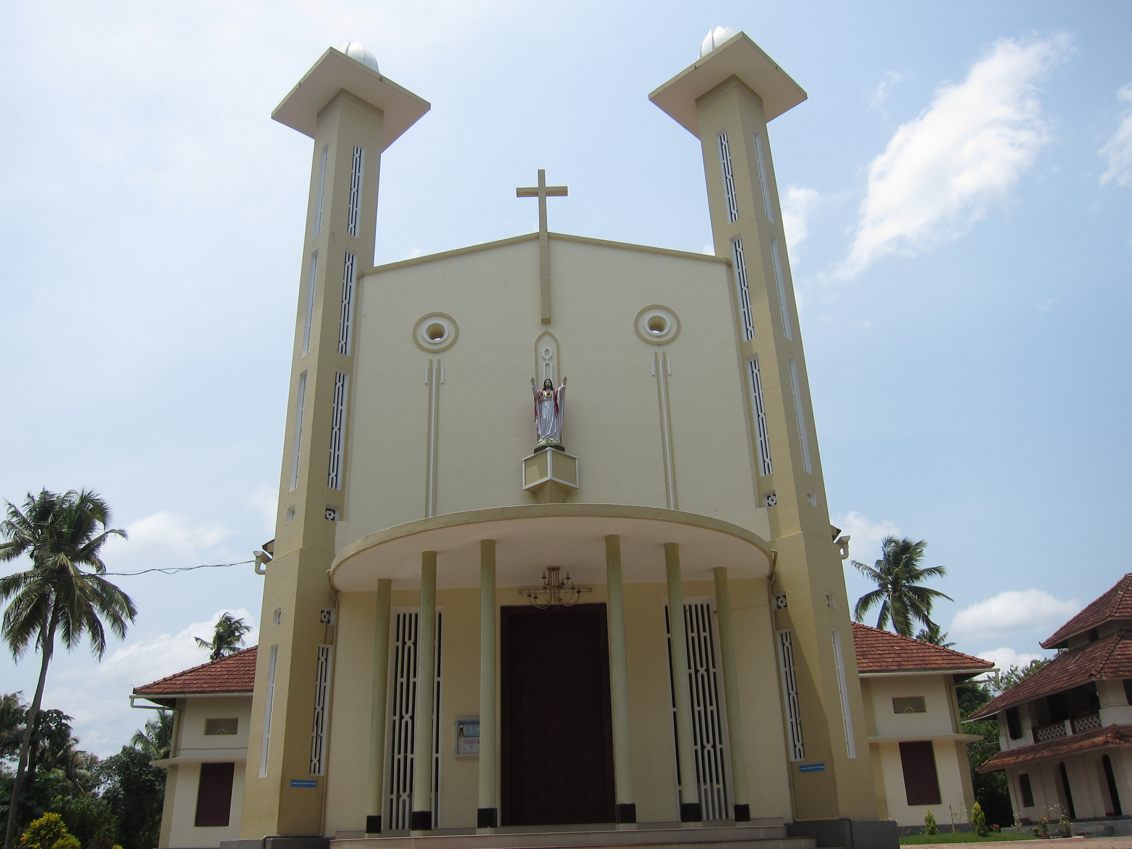 Kaduppassery - Sacred Heart Church, Irinjalakuda Diocese, Thrissur District